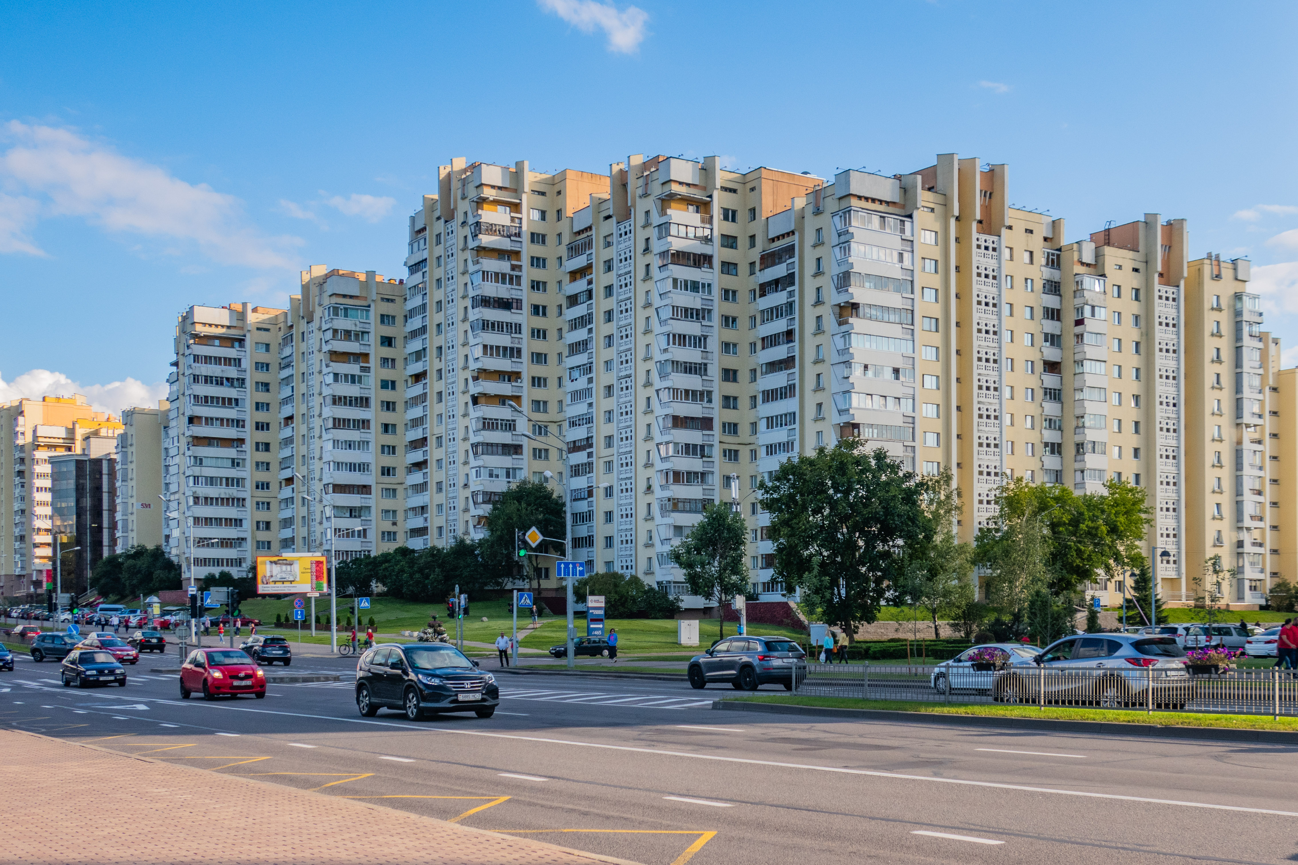 Pieramožcaŭ avenue. Minsk, Belarus